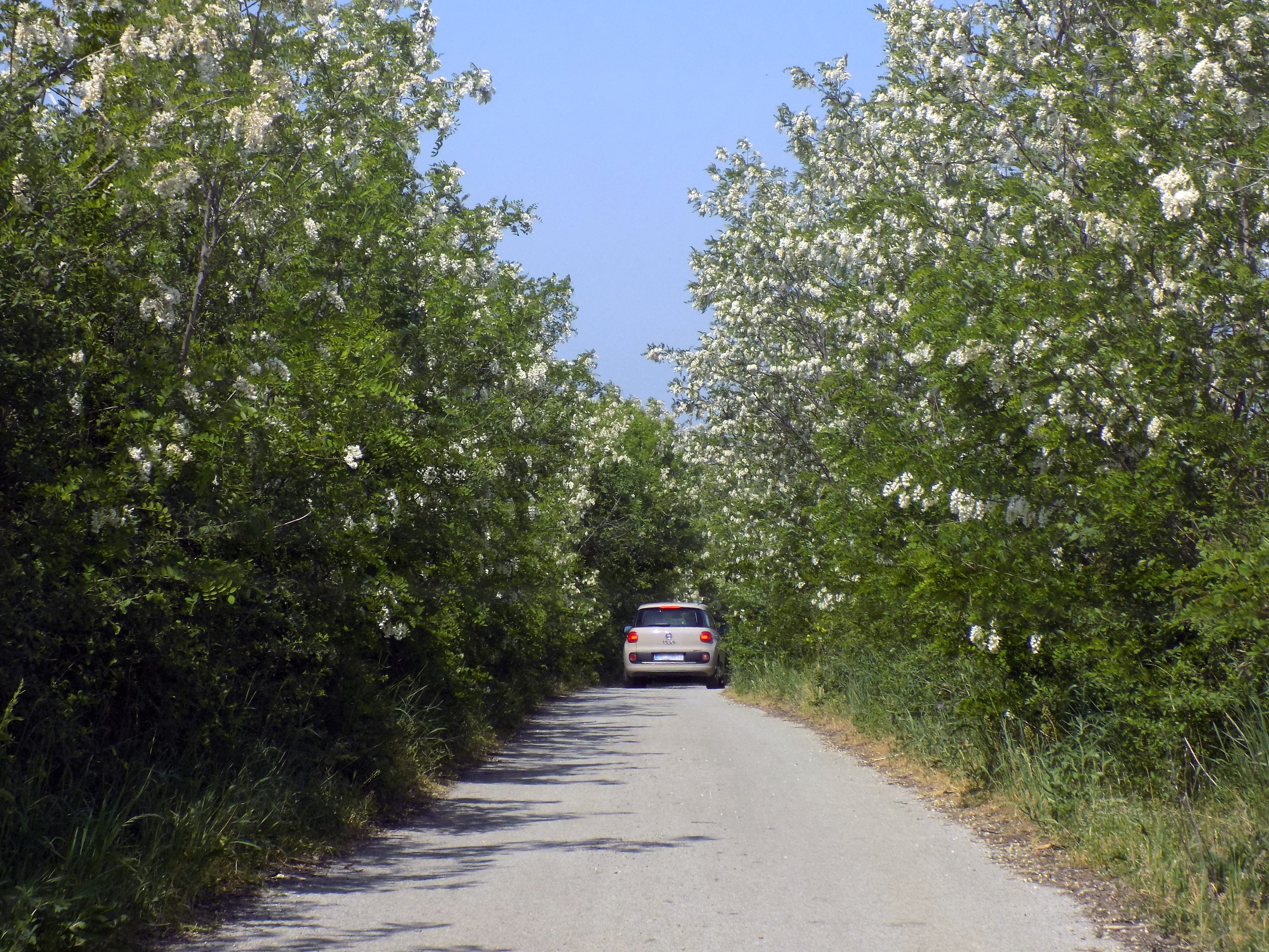 Umka, Local road